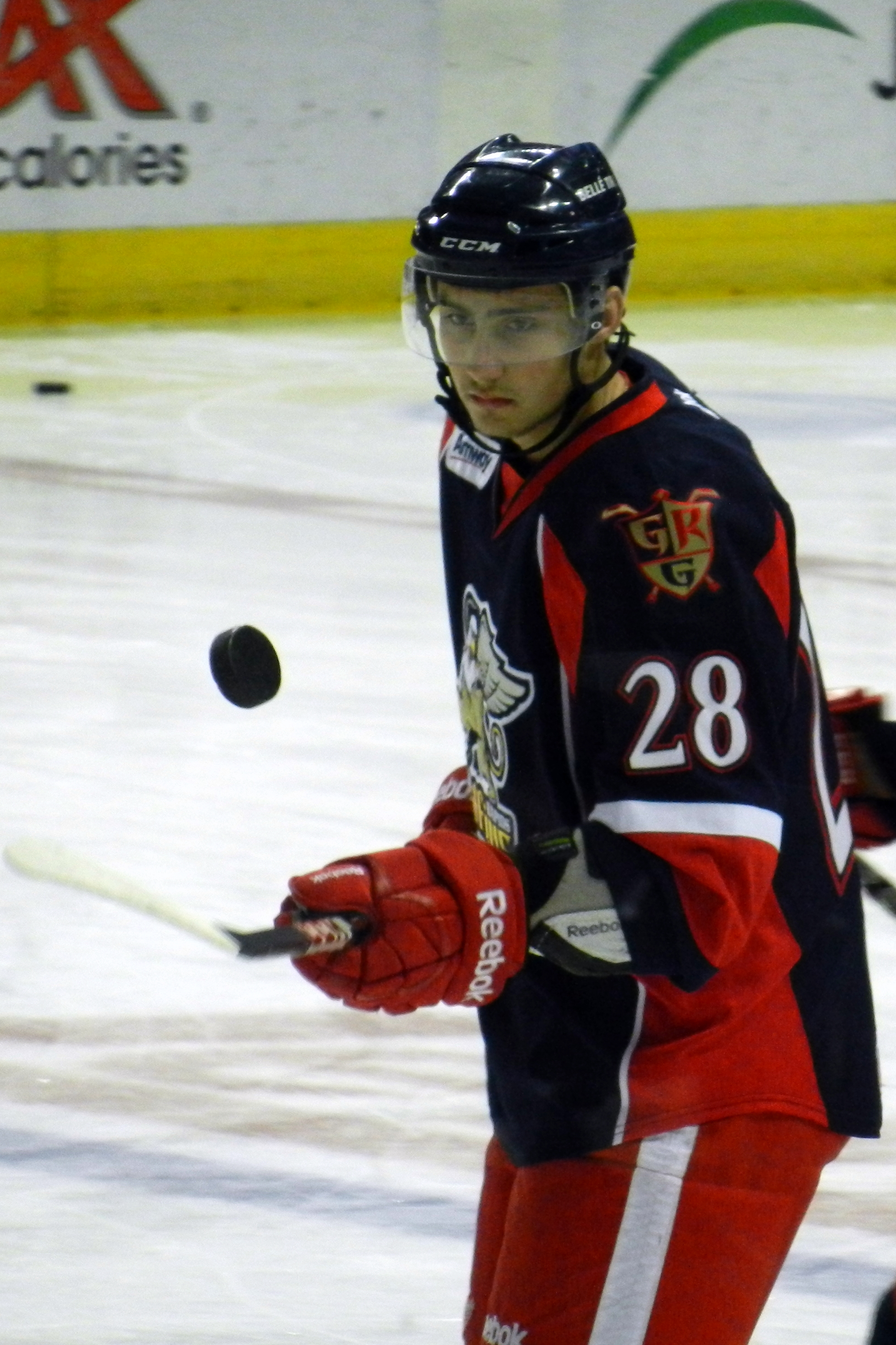 Tomas Jurco playing for the American Hockey League's Grand Rapids Griffins